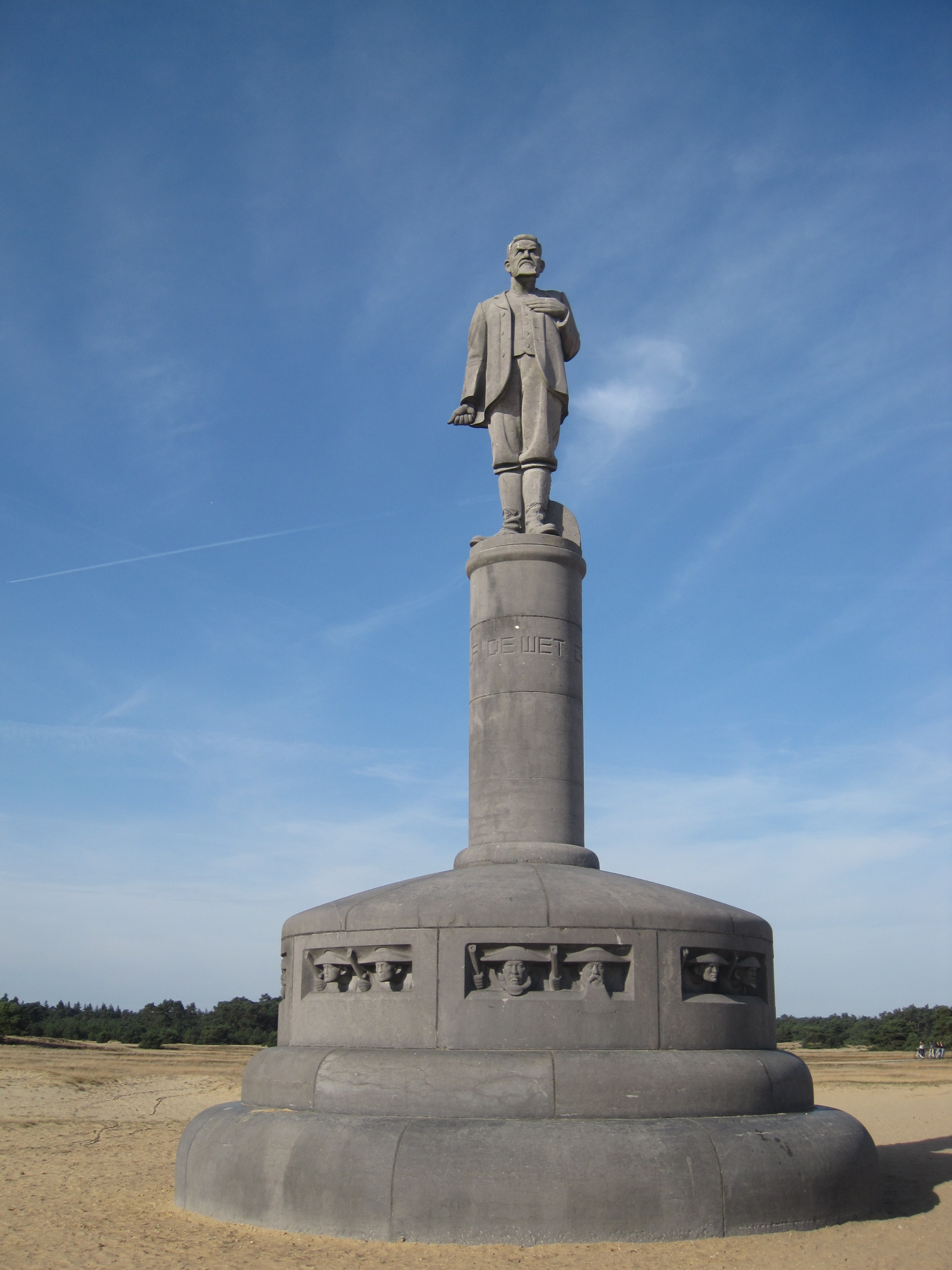 Sculpture Christiaan de Wet by Joseph Mendes da Costa, Hoge Veluwe, the Netherlands